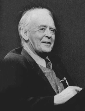 1972 Press Photo Professor John Hicks and wife learn he won 1972 Nobel Prize